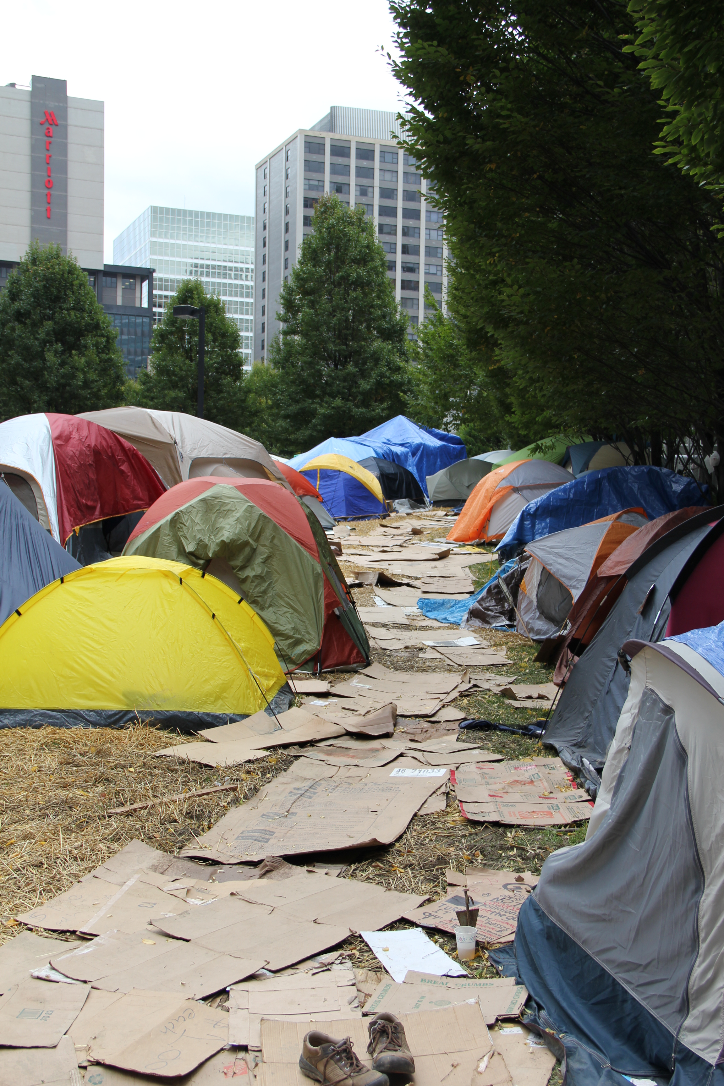 Reference via